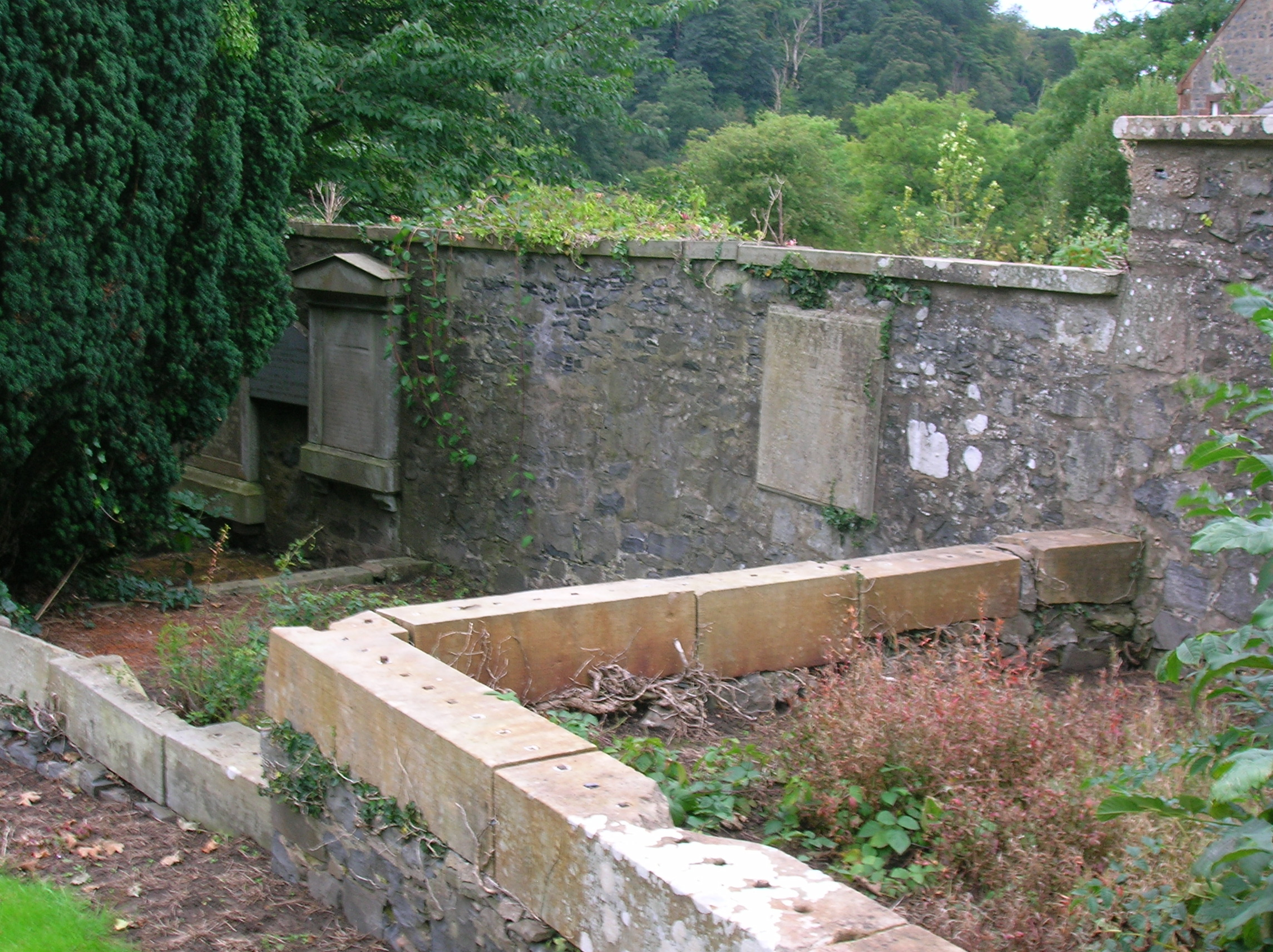 The Shewalton and Auchans burial grounds at Dundonald Parish church, South Ayrshire, Scotland.